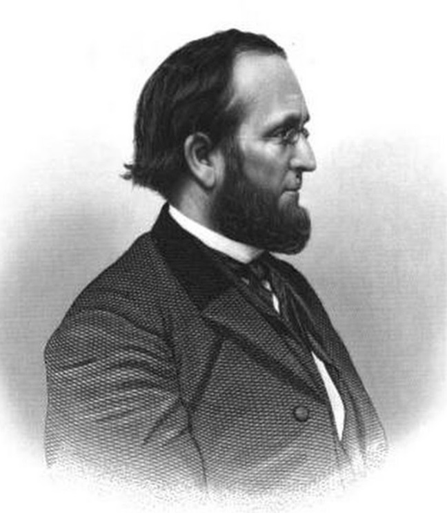 Frederick A. Pike (Maine Congressman)